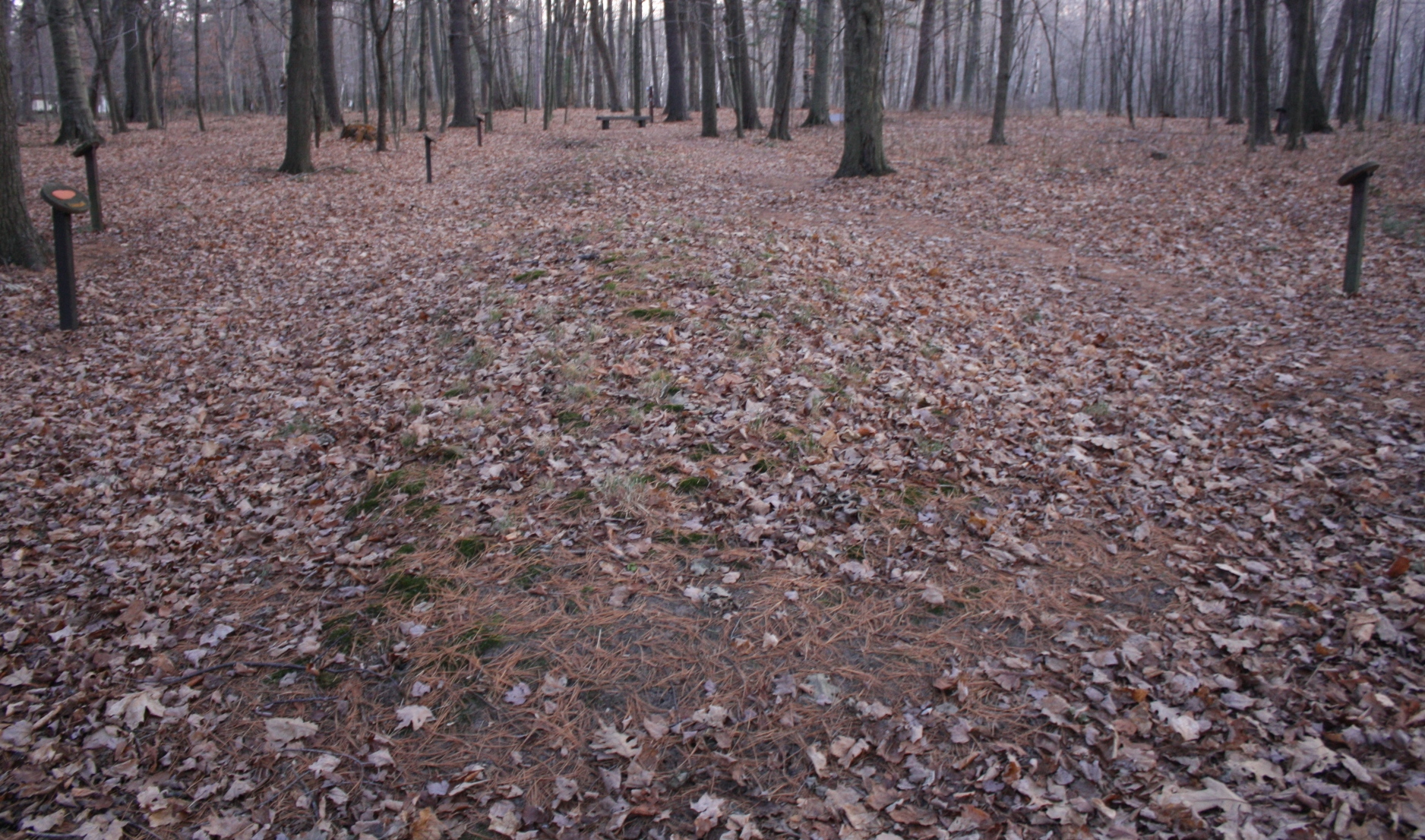 The Kletzien Mound Group in Sheboygan, Wisconsin in the Indian Mounds Park. Signs clearly marked the location. It is listed on the National Register of Historic Places.